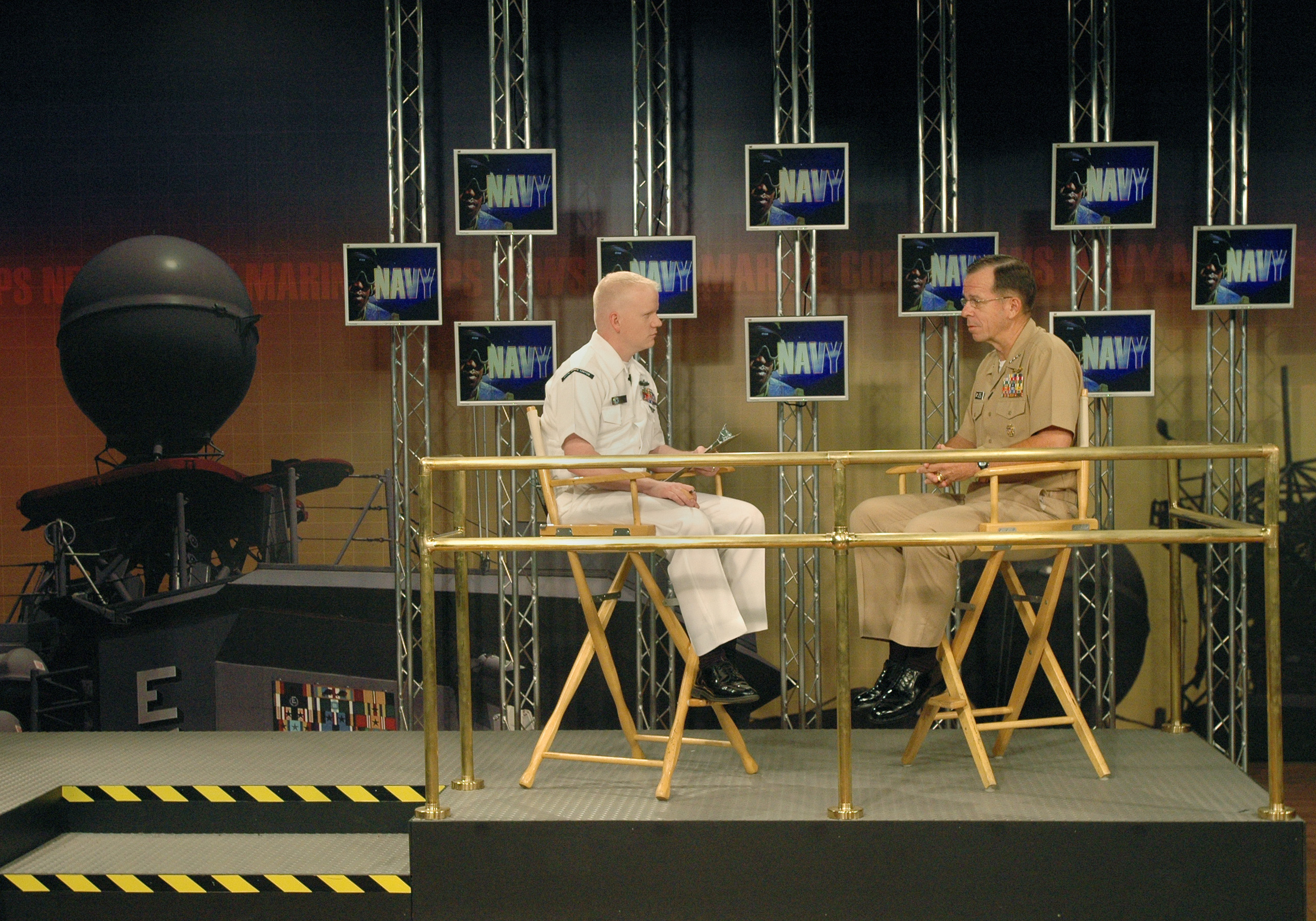 Washington, D.C. (July 26, 2005) – Chief of Naval Operations (CNO), Adm. Mike Mullen, is interviewed by Journalist 1st Class Tony Sisti assigned to Navy Marine Corps News (NMCN) at Naval Media Center Anacostia. This was the first time NMCN interviewed Adm. Mullen after relieving Adm. Vern Clark as CNO on July 22, 2005. U.S. Navy photo by Chief Photographer's Mate Johnny Bivera (RELEASED)